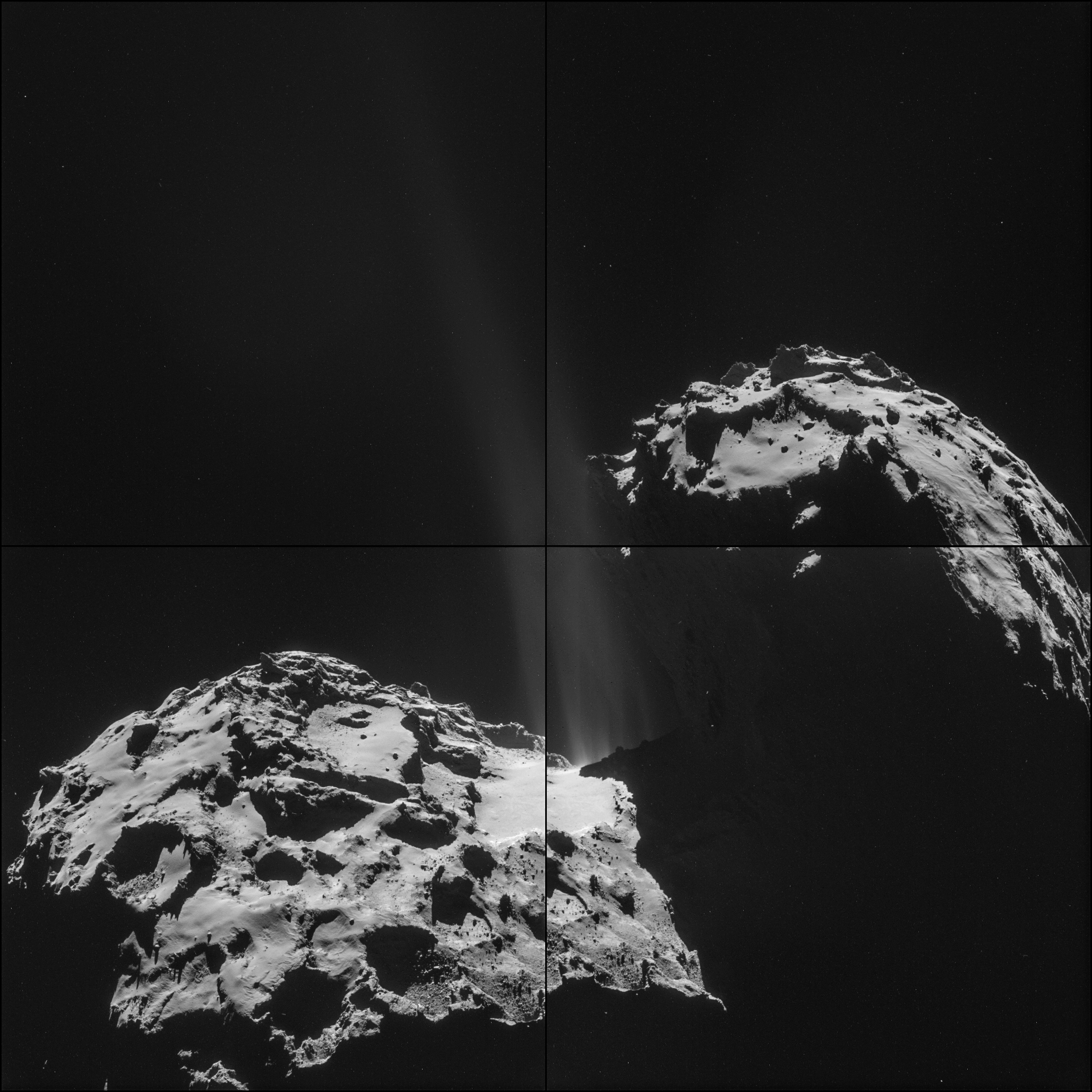 Montage of four images taken by Rosetta's navigation camera (NAVCAM) on 26 September 2014 at 26.3 km from the centre of comet 67P/Churyumov-Gerasimenko. The image shows the spectacular region of activity at the 'neck' of 67P/C-G. This is the product of ices sublimating and gases escaping from inside the comet, carrying streams of dust out into space. The four images were taken in sequence as a 2×2 raster over a short period, meaning that there is some motion of the spacecraft and rotation of the comet between the images. The images have been cleaned to remove the more obvious bad 'pixel pairs' and cosmic ray artefacts, and intensities have been scaled. The four individual full-frame images are also available as related images in the right-hand menu. For more details, see the Rosetta blog post : CometWatch – 26 km on 26 September.